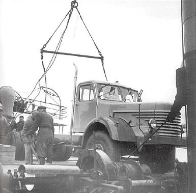 The very first Vanaja to be exported in Turku harbour. The ship is S/S Regulus.